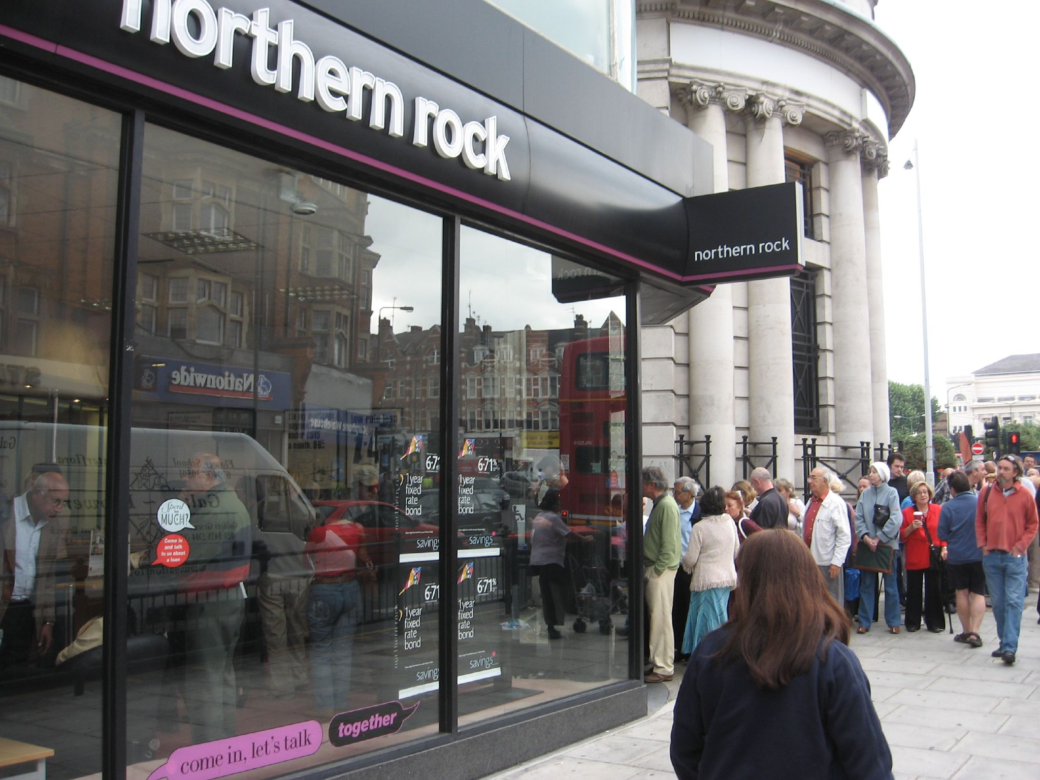 The slogan in the window "Come In, Let's Talk Together" was particularly effective today.